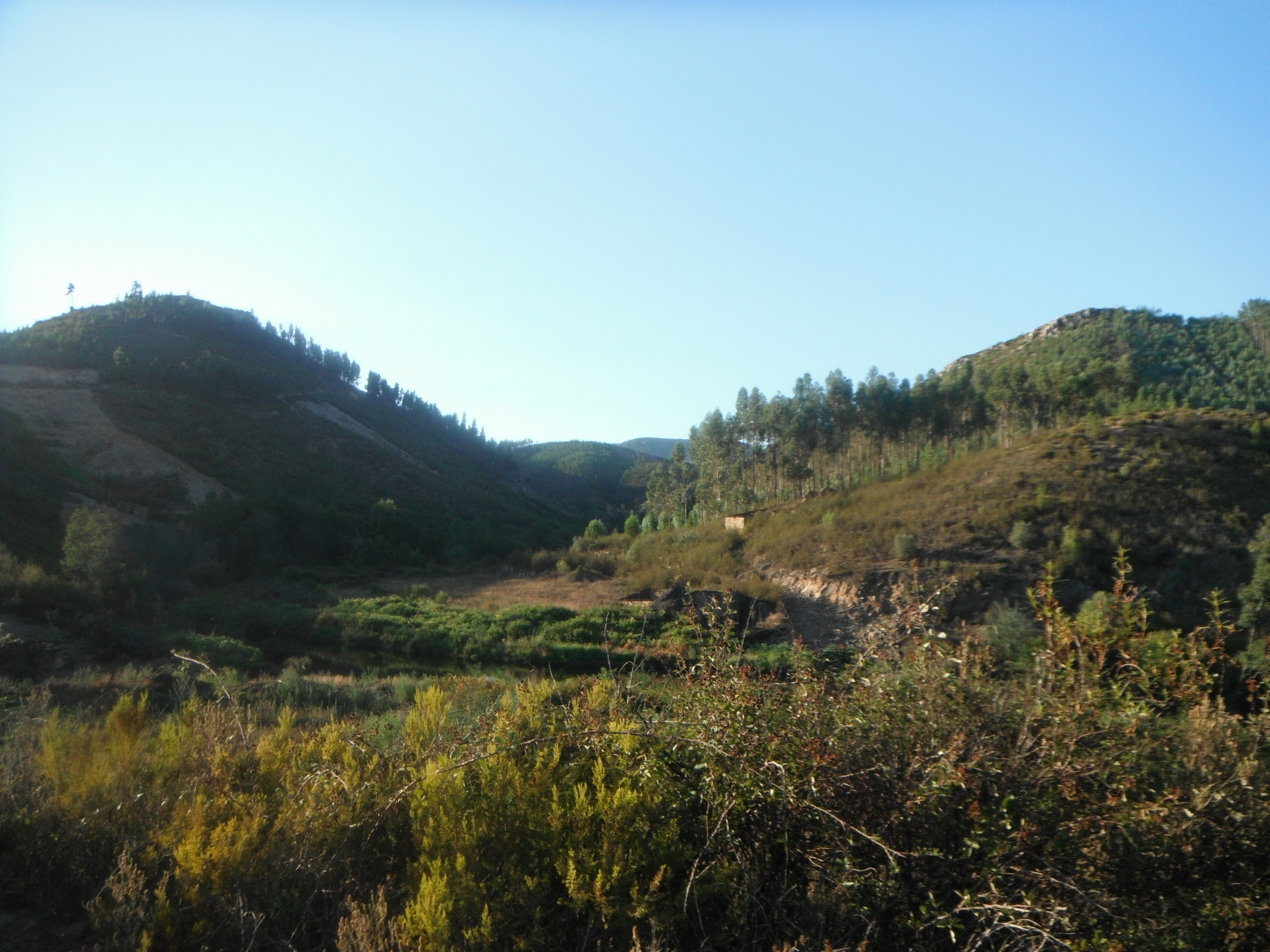 Castle of Caratão covered in vegetation